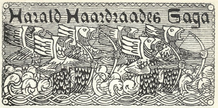 Gerhard Munthe: Illustration for Harald Hardrådes saga, Heimskringla 1899-edition. Tittelfrise.